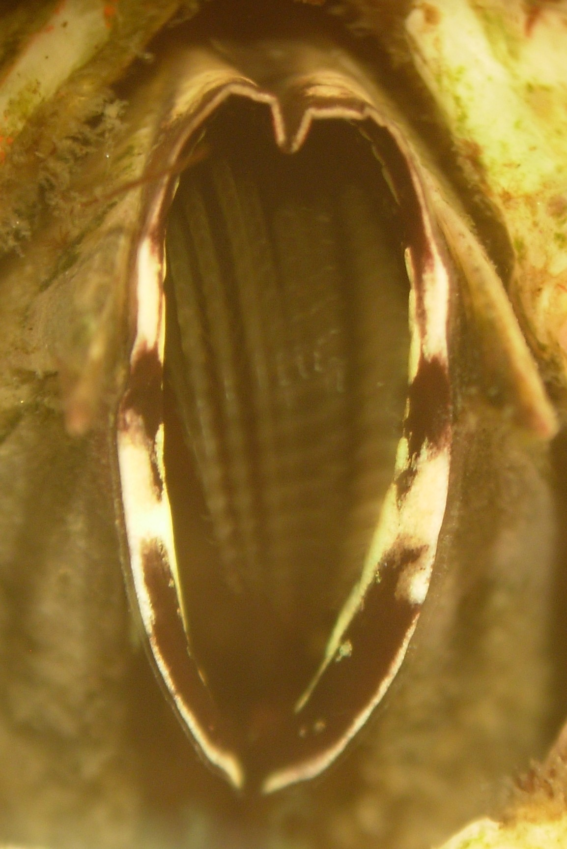 Balanus perforatus : tergoscutal flasps.